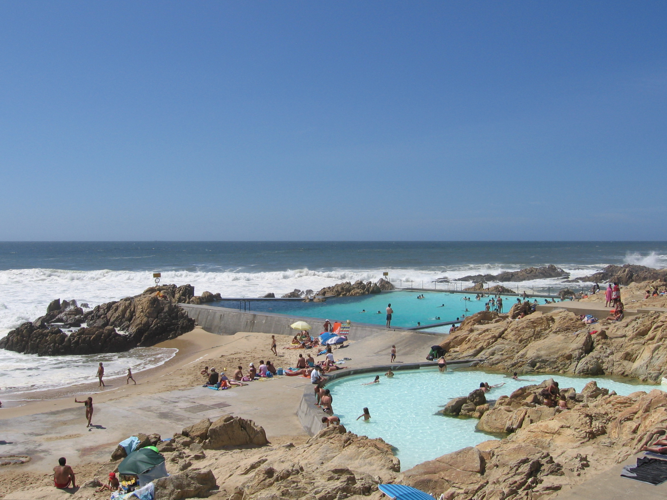 The two swimming pools on the beach at Leça da Palmeira. This project was designed by Álvaro Siza Vieria from 1959 to 1973.